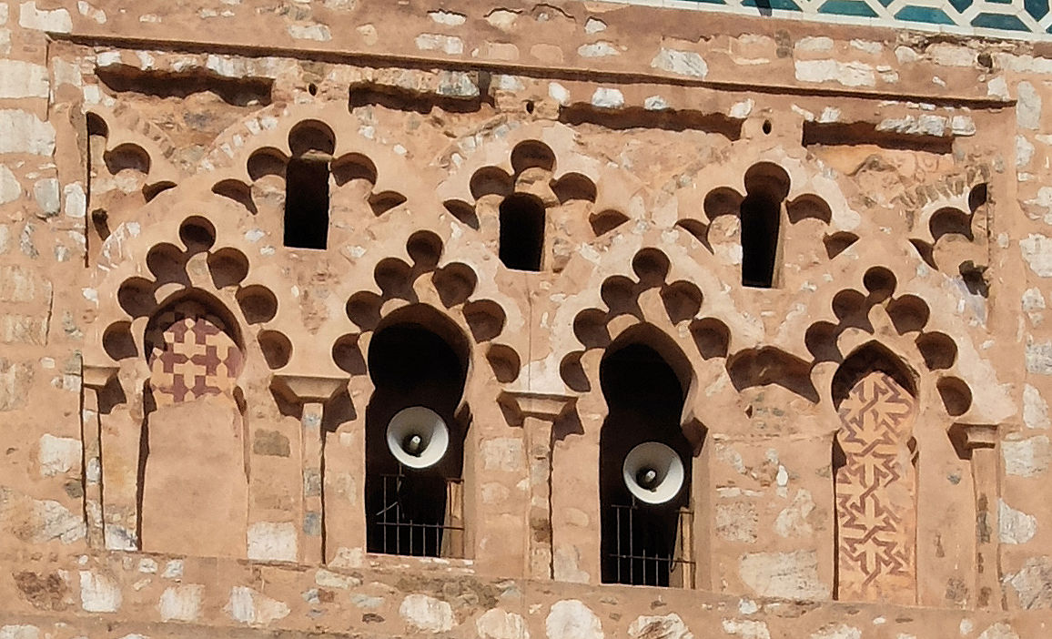 Decorative elements on the Koutoubia minaret's western facade, around the upper windows.